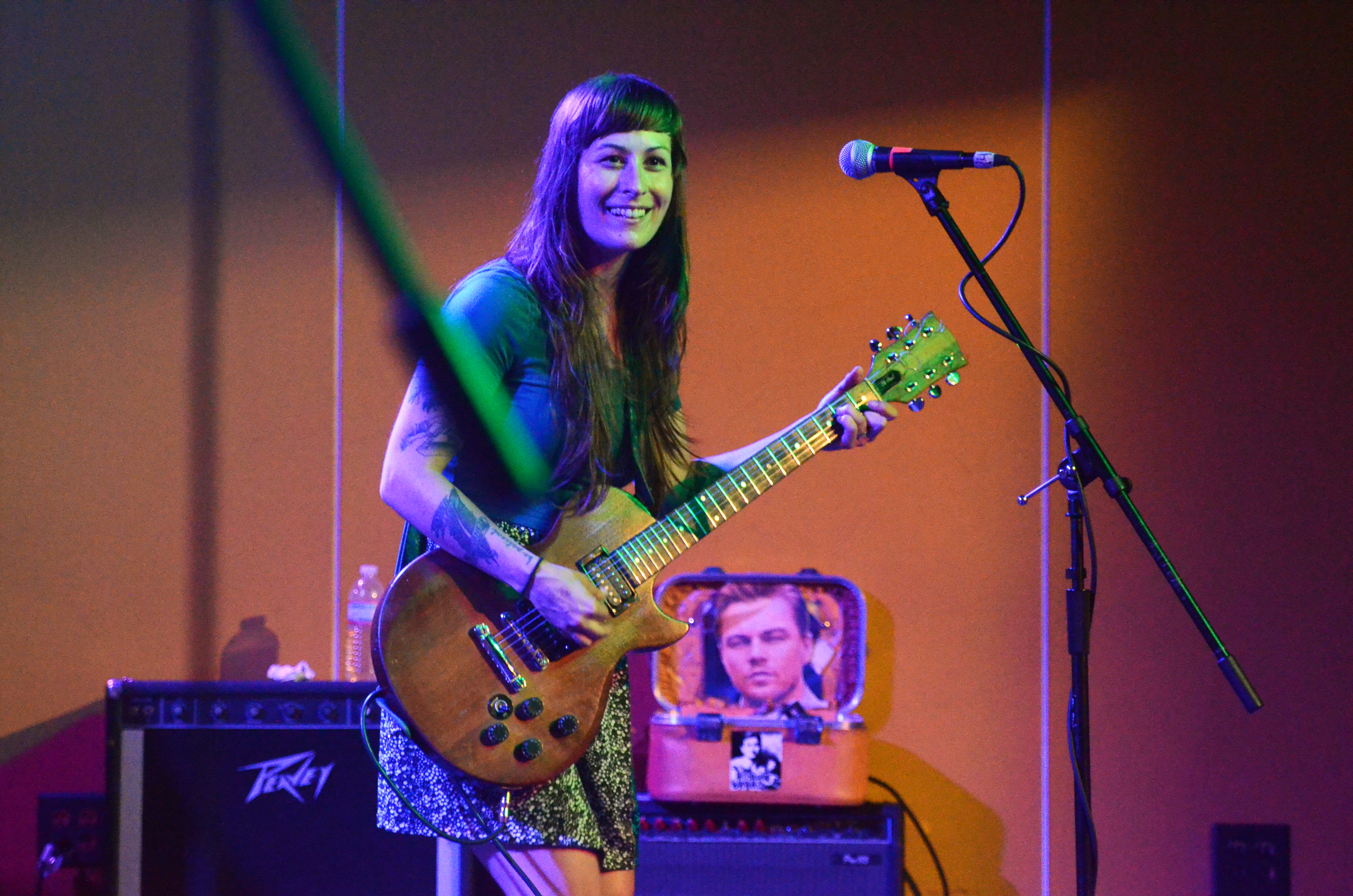 Published on